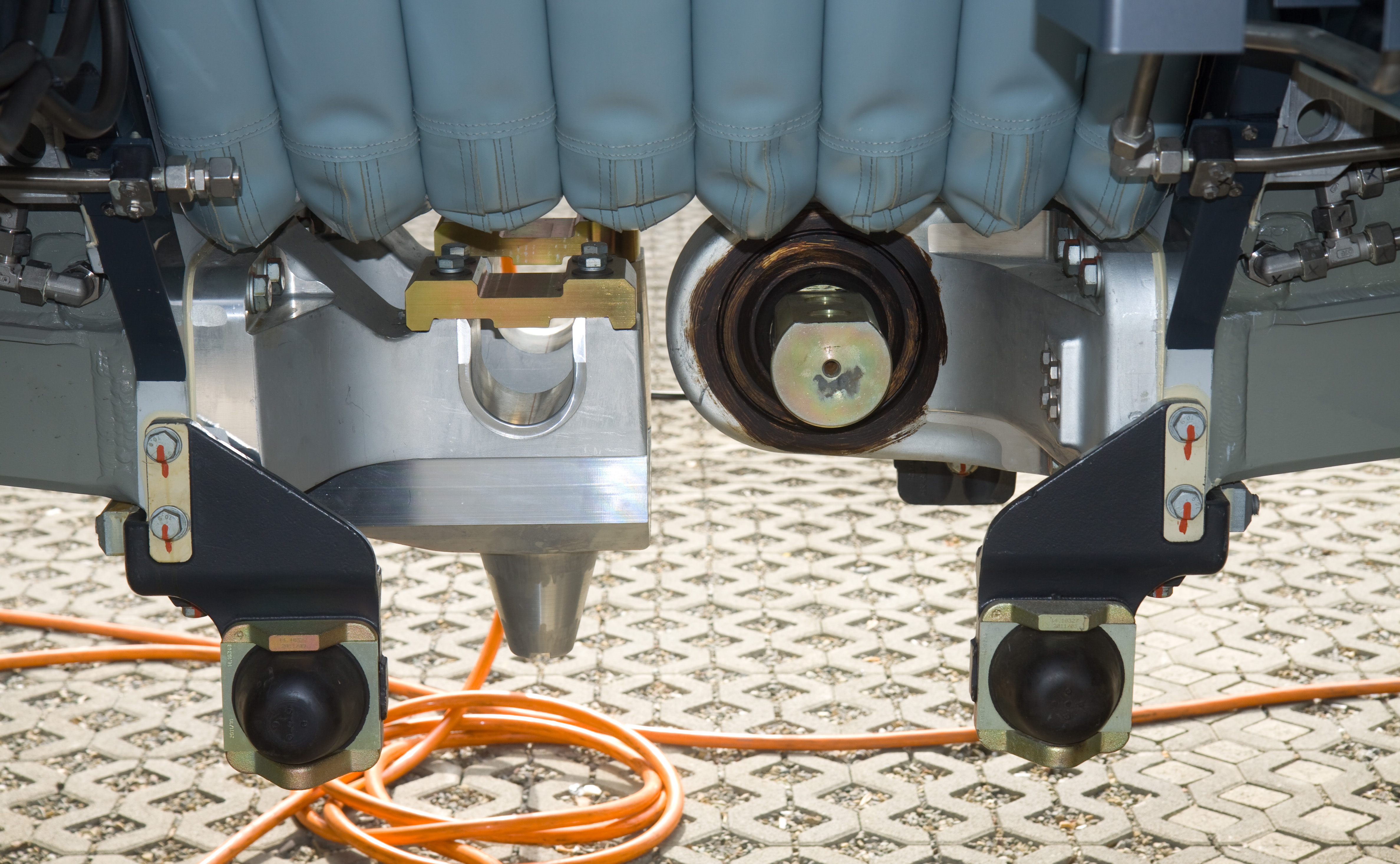 Joint of a Stadler FLIRT, Belarus version (broad gauge). The joint is taken apart, and the bogie is missing (it fits onto the spike at the bottom).